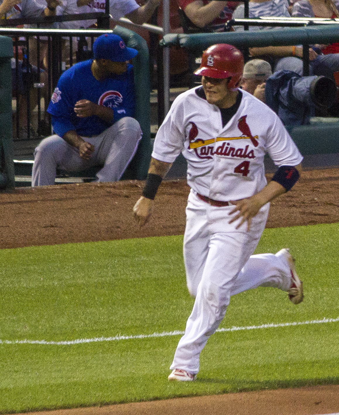 Cardinal player Yadi Molina scores 2014